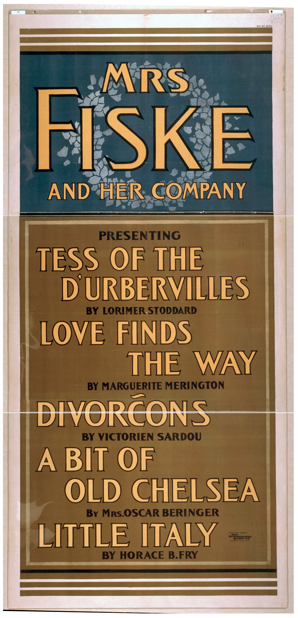 Title: Mrs. Fiske and her company presenting Tess of the D'Urbervilles by Lorimer Stoddard, Love finds the way by Marguerite Merington, Divorćons by Victorien Sardou, A bit of old Chelsea by Mrs. Oscar Beringer, Little Italy by Horace B. Fry Abstract/medium: 1 print : color lithograph ; sheet 214 x 101 cm. (poster format)